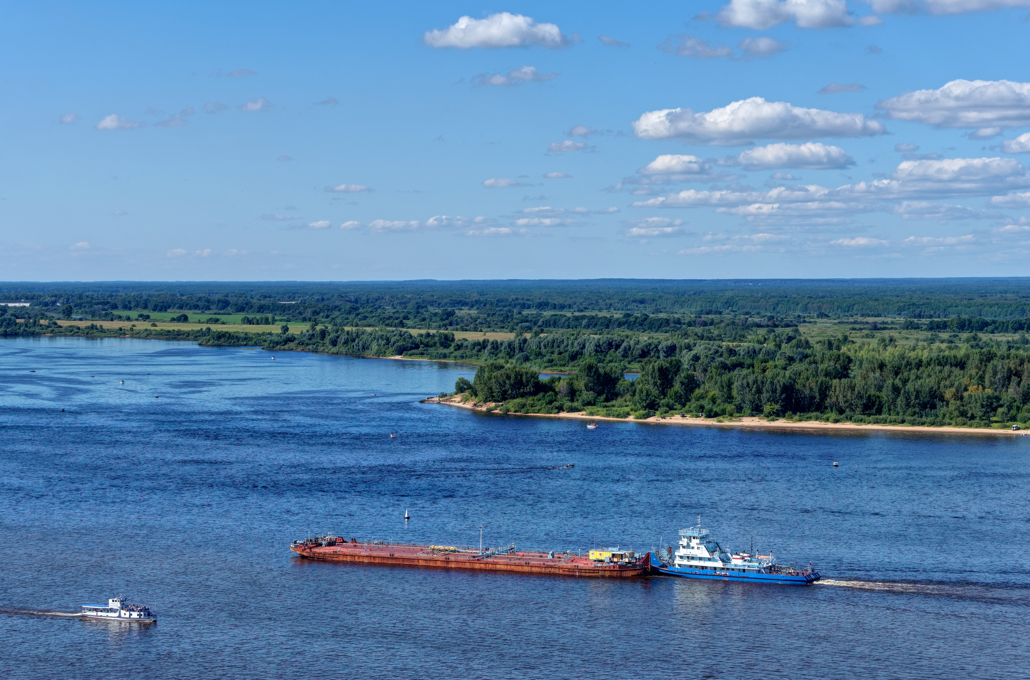 Volga River